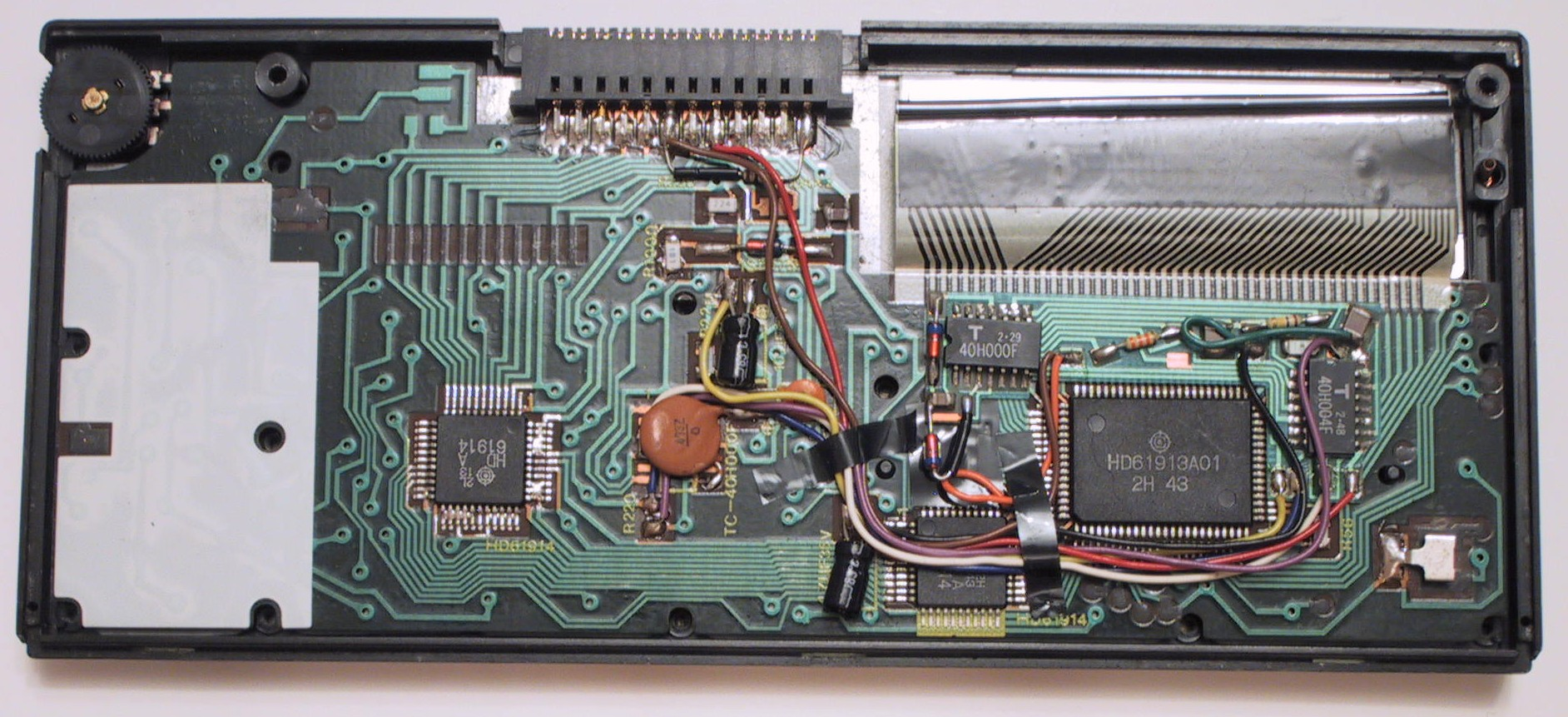 The photo shows what's inside the Casio FX-700P calculator. The large chip marked HD61913A01 is the microprocessor and the smaller chips marked HD61914 are the RAM memories.